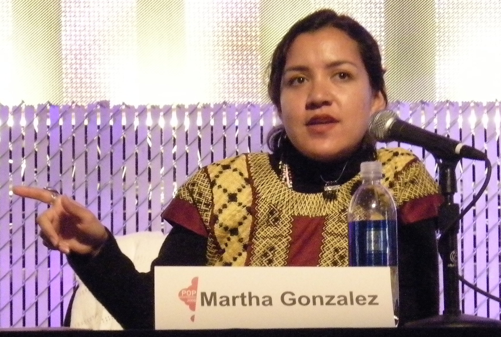 Martha Gonzalez of the band Quetzal on the keynote panel of 2008 Pop Conference, Experience Music Project, Seattle, Washington. Panel was called "Ritmo and Blues: Hidden Histories Shaking Up 'American' Pop".